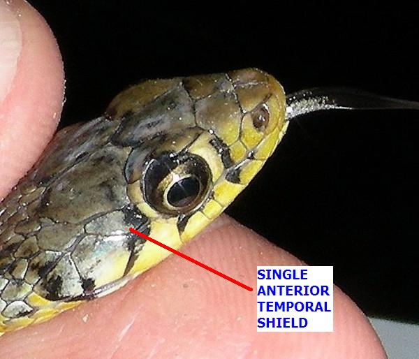 Buff-striped keelback, Amphiesma stolata, Family Colubridinae, Serpentes Third identification characteristic for Buff-striped Keelback snake. Presence of single temporal shield. Image taken on 17 Jul 06 in Binnaguri, Duars, northern West Bengal, India by AshLin. Self-work. CC2.5-Self work, attribution required. AshLin 12:11, 23 July 2006 (UTC)